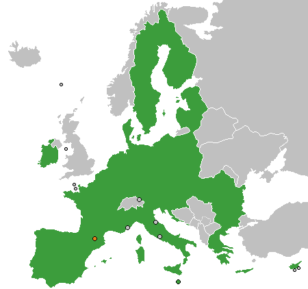 Locator map for the European Union and Andorra